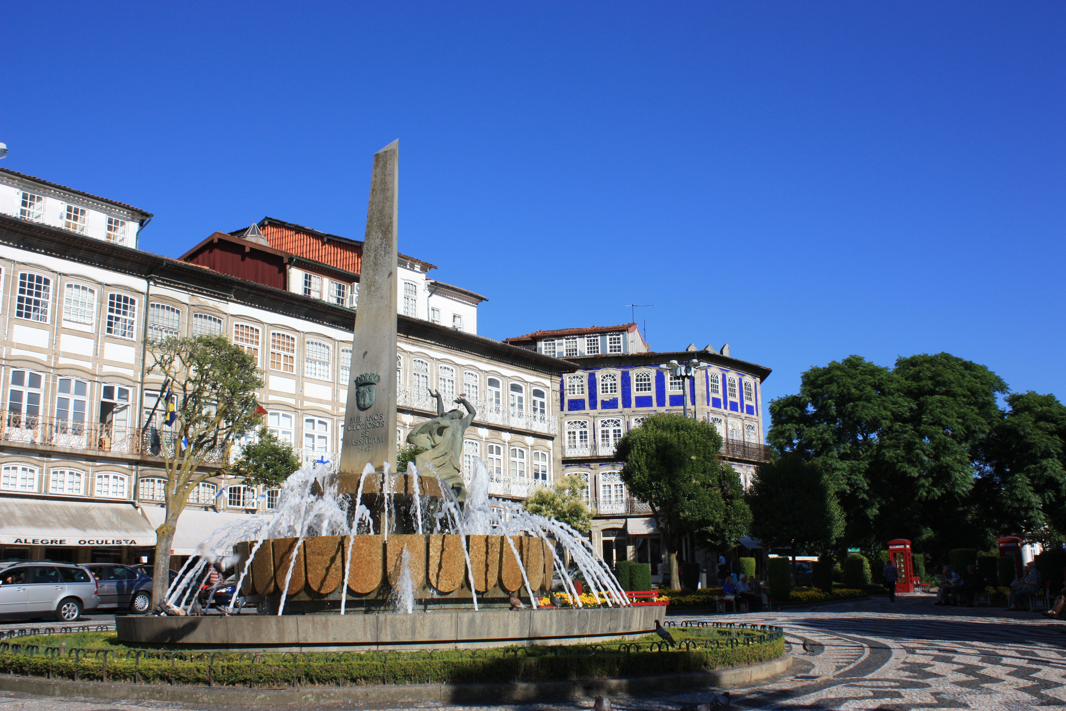 Digital photograph of Toural square, Guimarães, Portugal, in 2009